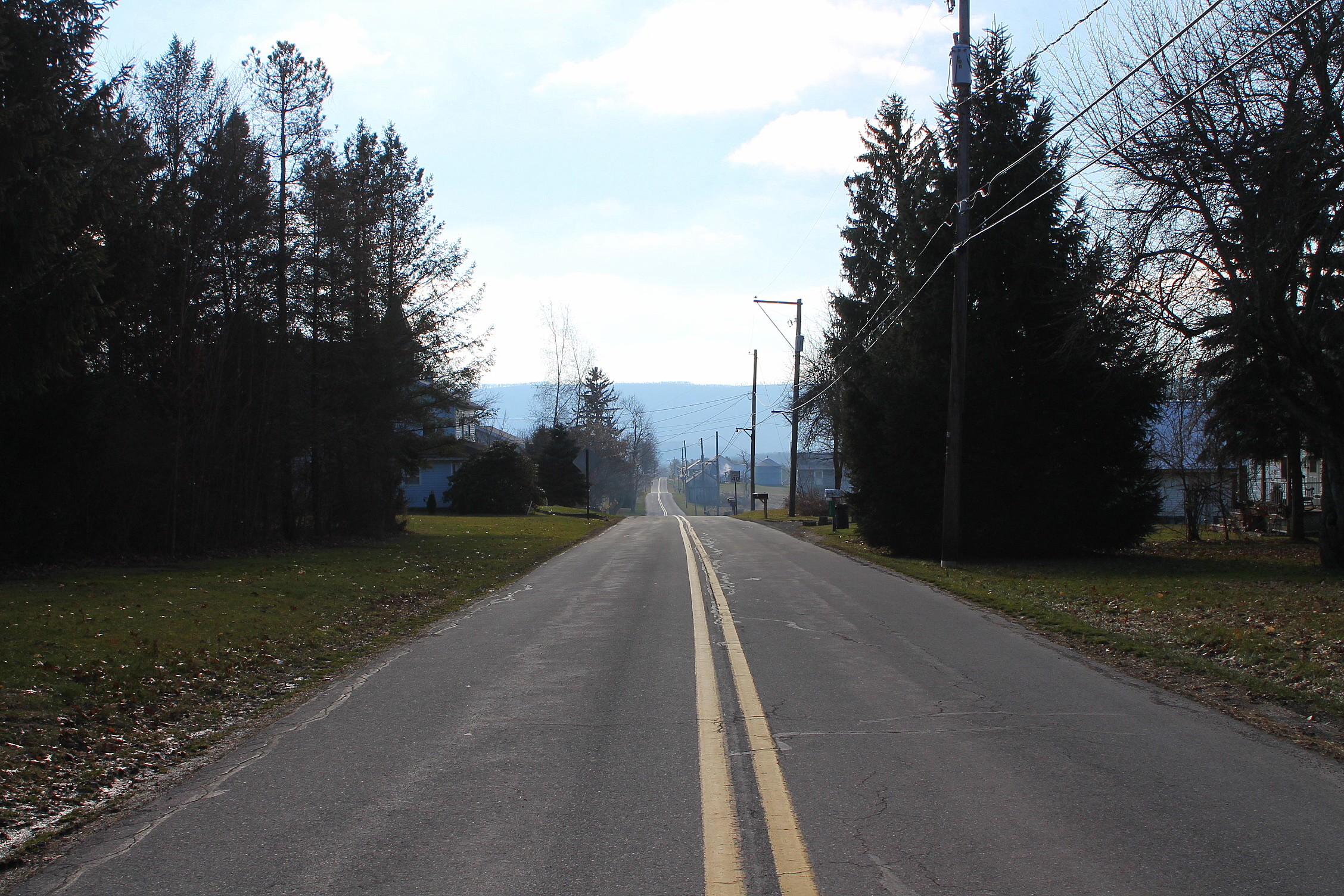 Old Tioga Turnpike looking south in New Columbus, Pennsylvania